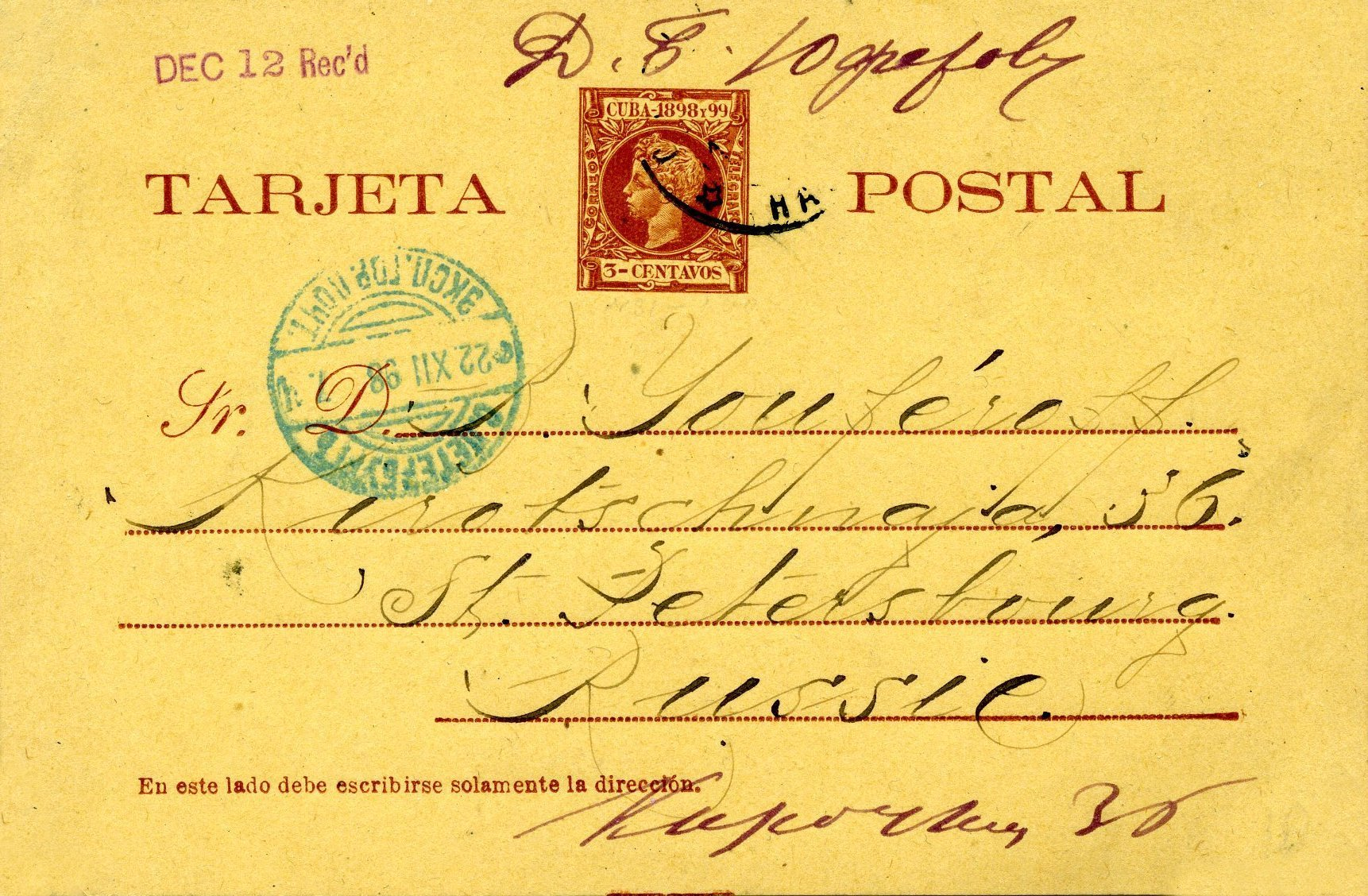 Cuban 3 centavos postal card of 1898 sent to stamp dealer in St. Petersburg, Russia. The sender stated he was sending all four denominations of postal cards.